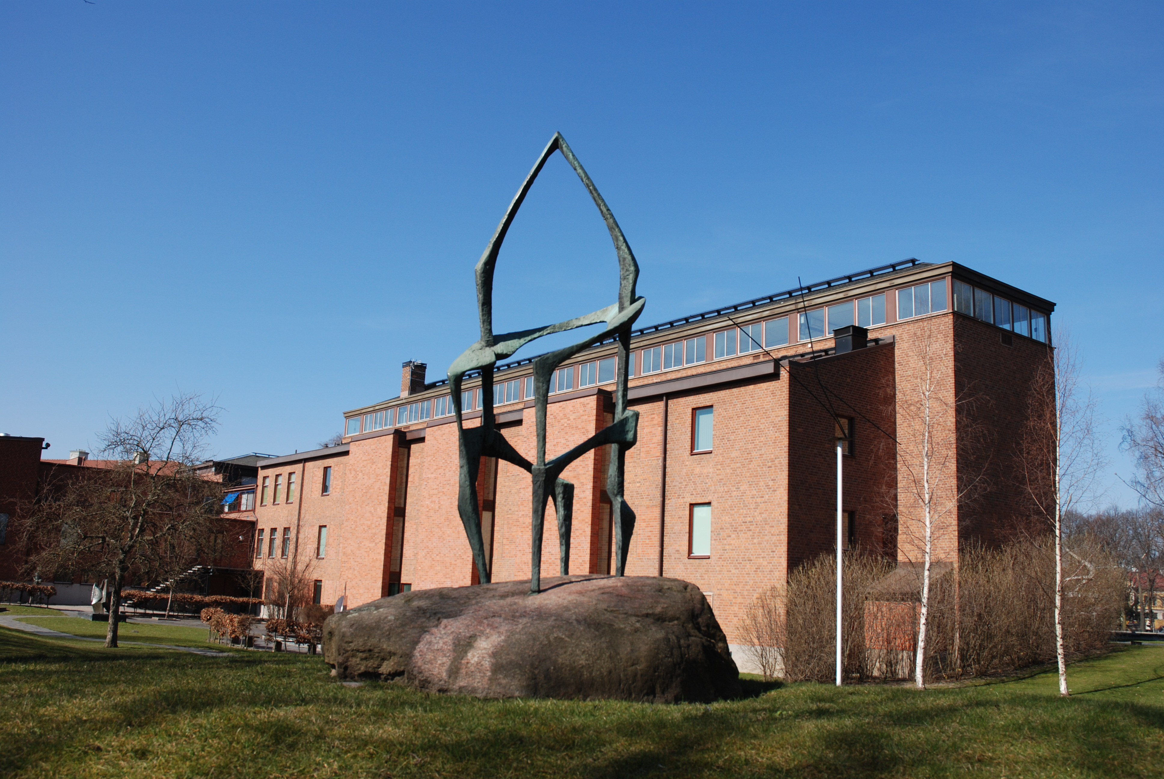 Arne Jones' Katedral (Cathedral) in Norrköping